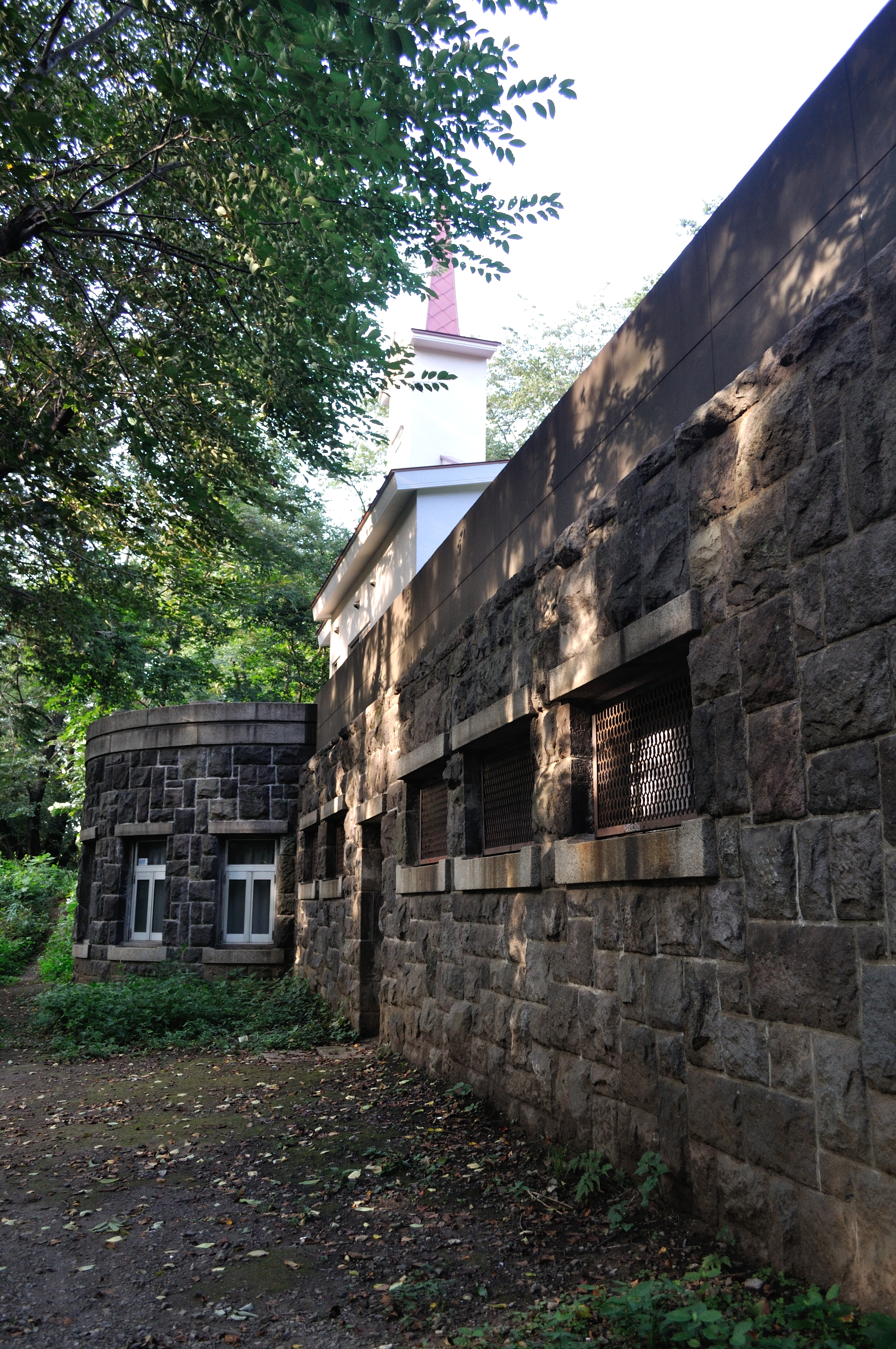 Site of the officer meeting hall of the Imperial Japanese Army Toyama School at Shinjuku, Tokyo Nikon D5000